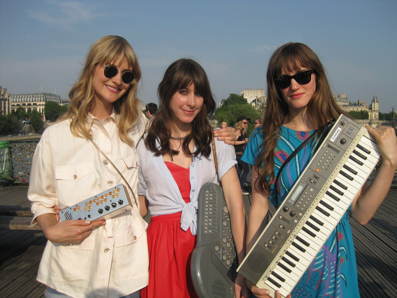 Au Revoir Simone in Paris (Pont des Arts) for "a petit concert en pleine air for fun on the left bank side of Pont des Arts". Pictured from the left: Erika, Heather, Annie